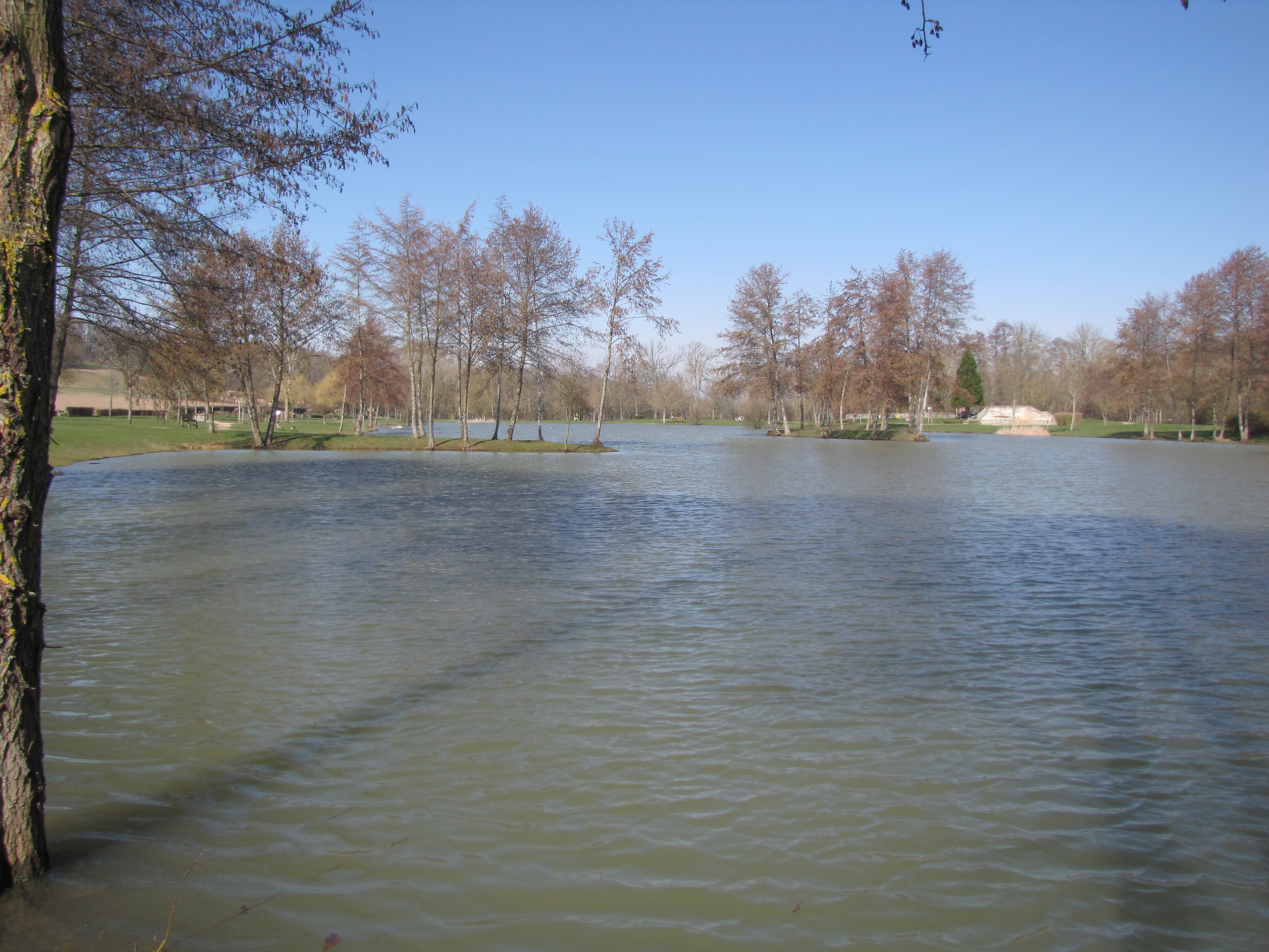 Charny, Yonne, France. The pleasure pond